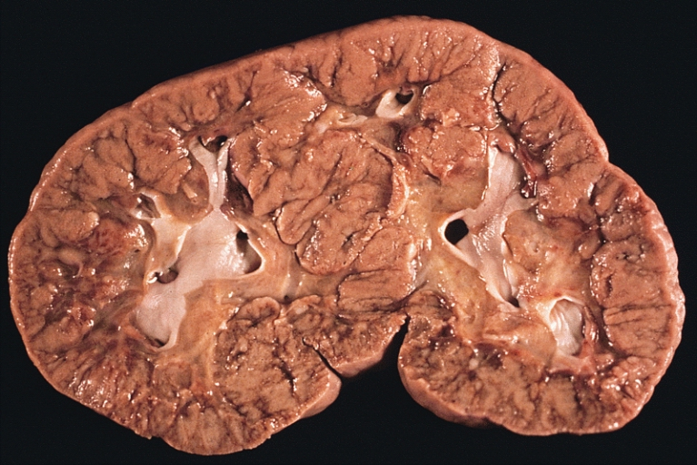 KIDNEY-BLADDER-URINARY: UNIVERSAL OR PANLOBAR NEPHROBLASTOMATOSIS The kidneys of this prematurely born neonatal male weighed 220 g combined, approximately ten times normal. Note extreme distortion of lobar architecture throughout.